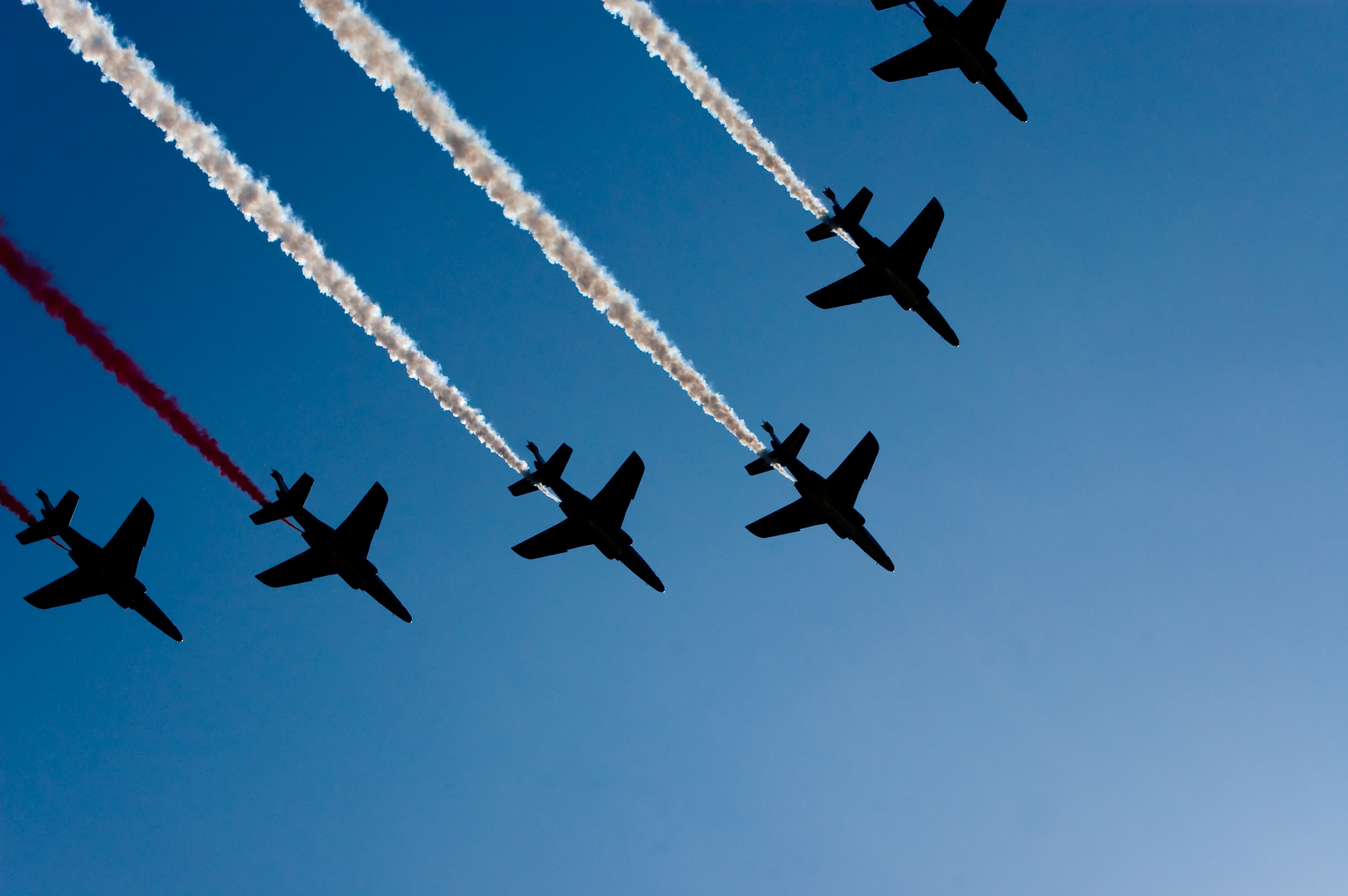 The Patrouille de France passing by during the French national celebration of 2009.